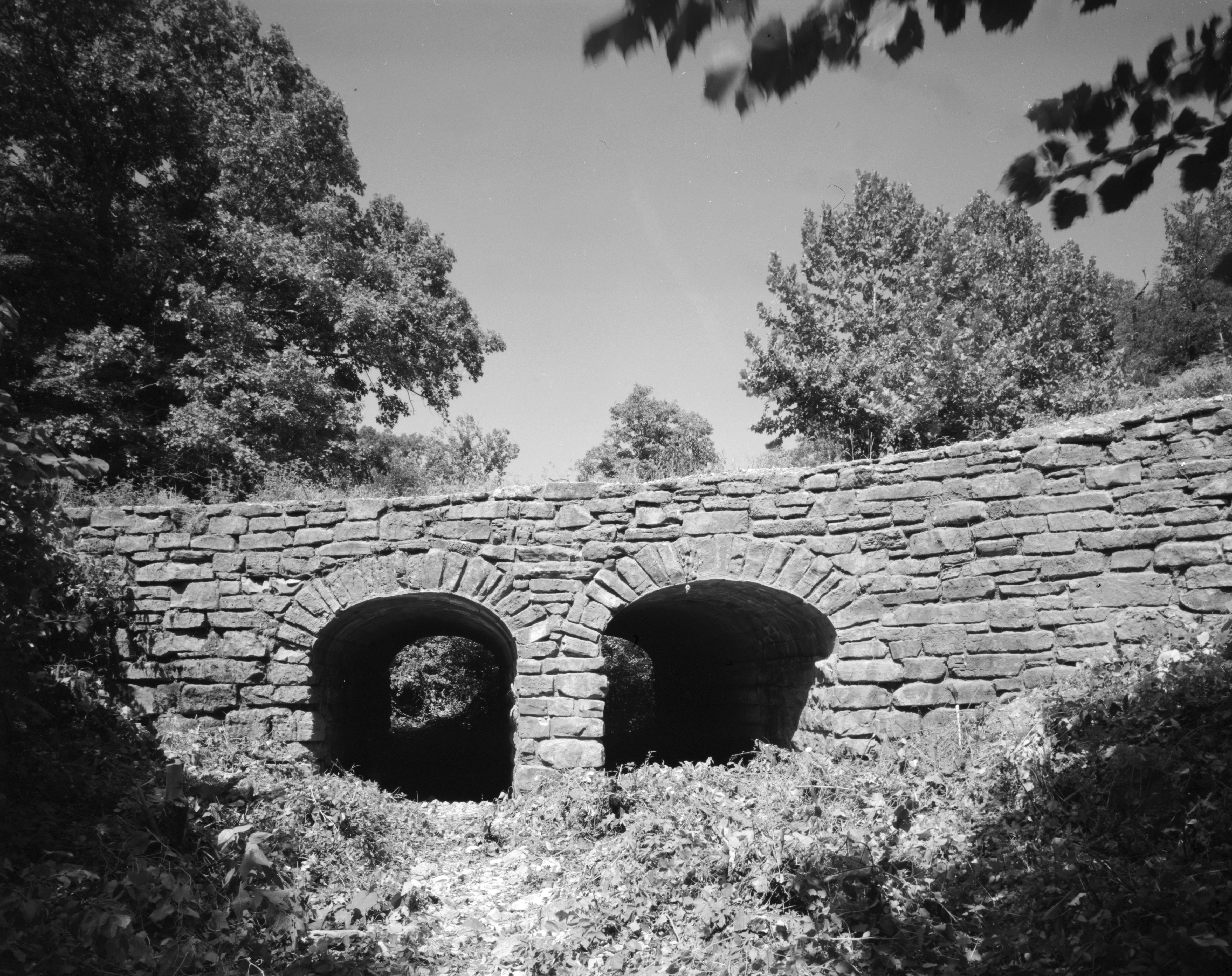 Eastern side of the Mulladay Hollow Bridge, which carries County Road 61 over Mulladay Hollow Creek near Eureka Springs in Carroll County, Arkansas, United States. Built in 1935, this closed spandrel stone deck arch bridge is listed on the National Register of Historic Places.